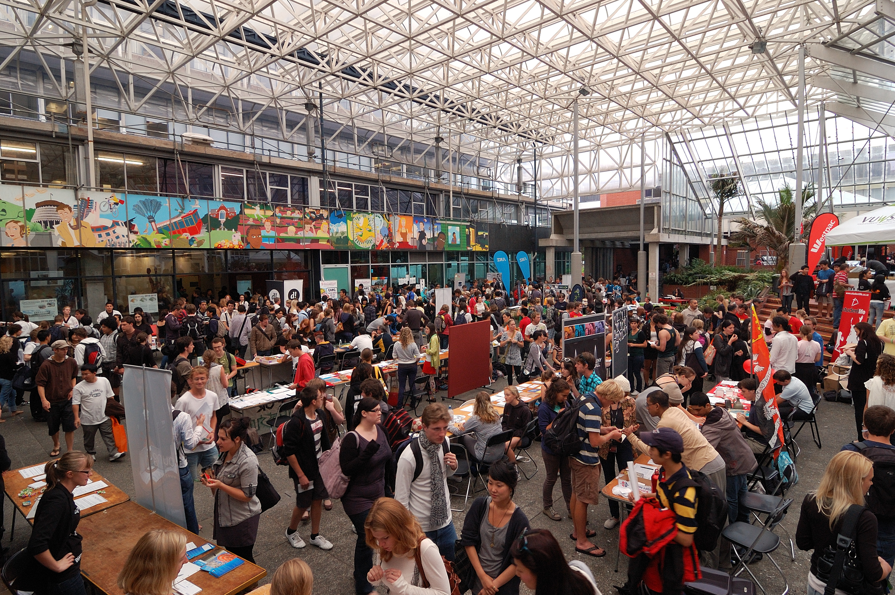 Orientation Week, Victoria University of Wellington